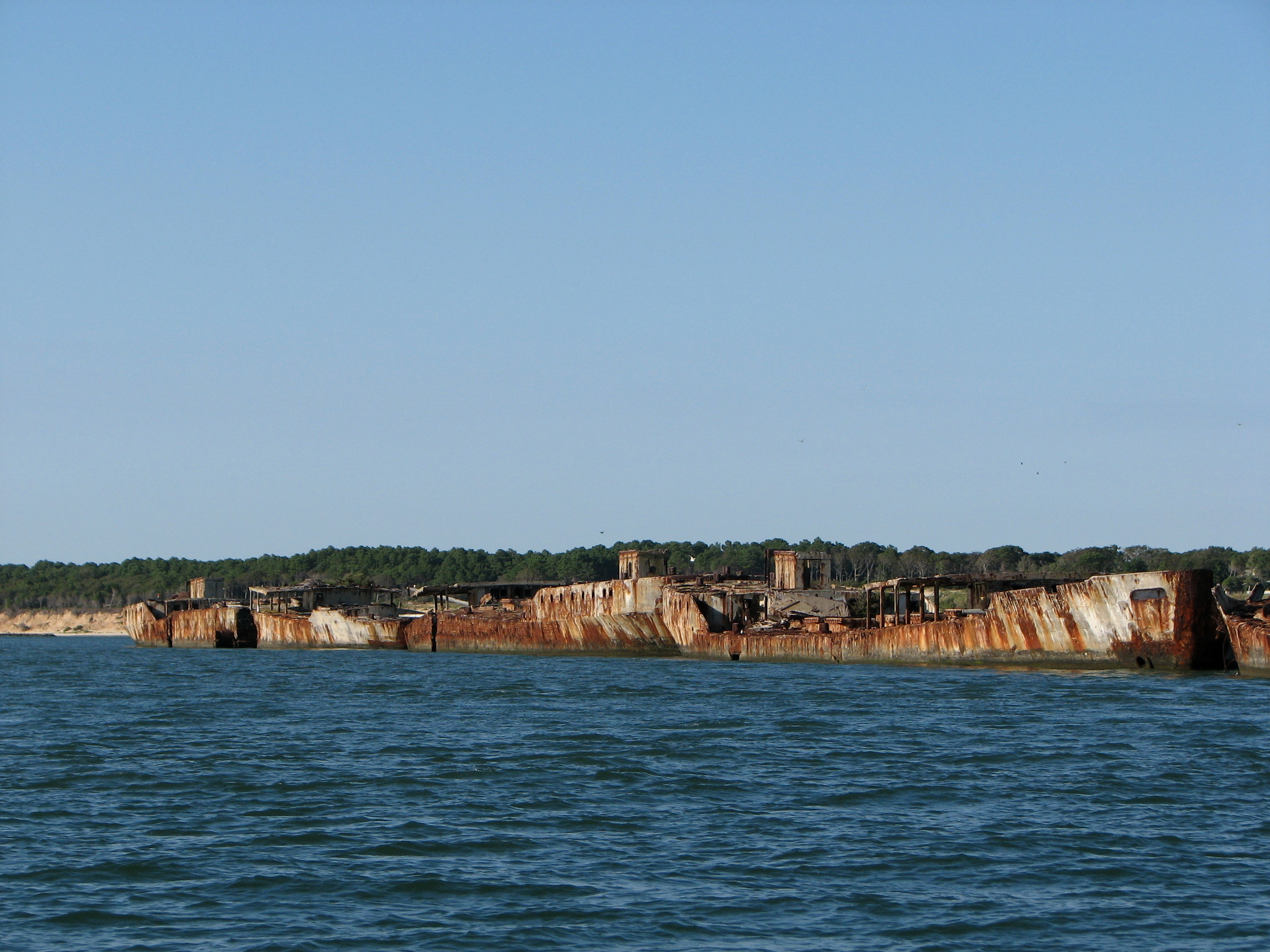 These concrete ships pictured are part of the breakwater at Kiptopeke state park in Virginia, near the Chesapeake Bay Bridge-Tunnel. More information on these ships may be found at Concrete Ships: Kiptopeke Breakwater